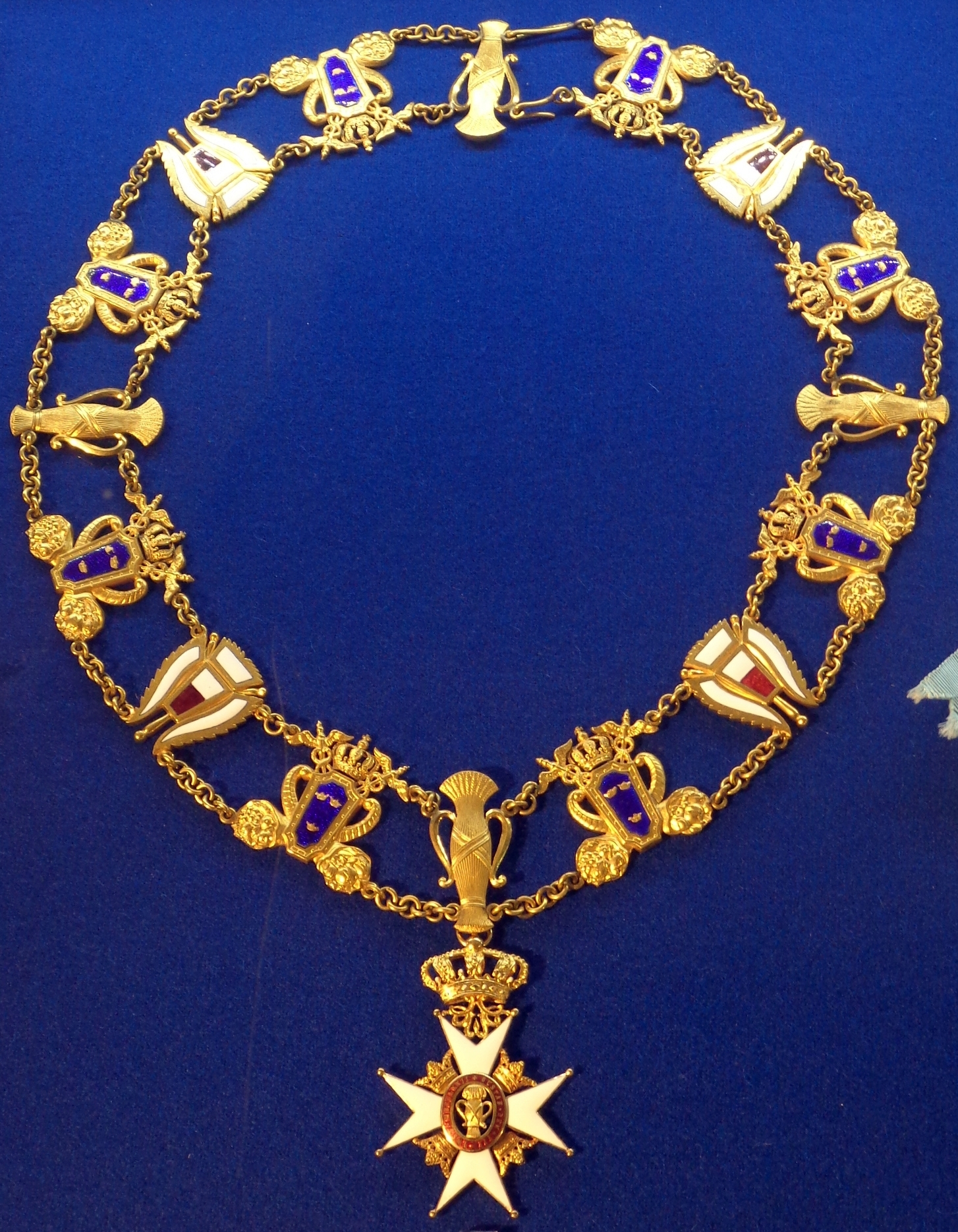 Order of Vasa, collar and badge of Grand Cross. Sweden. The exhibition of the Tallinn Museum of Orders of Knighthood, Estonia.